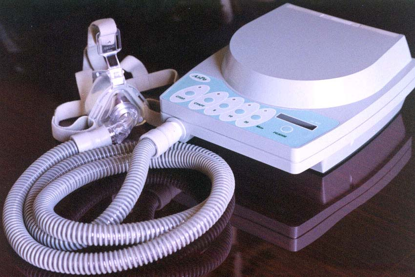 The first Russian CPAP "AeRo" (Istok-Sistema, Fryazino), 2002